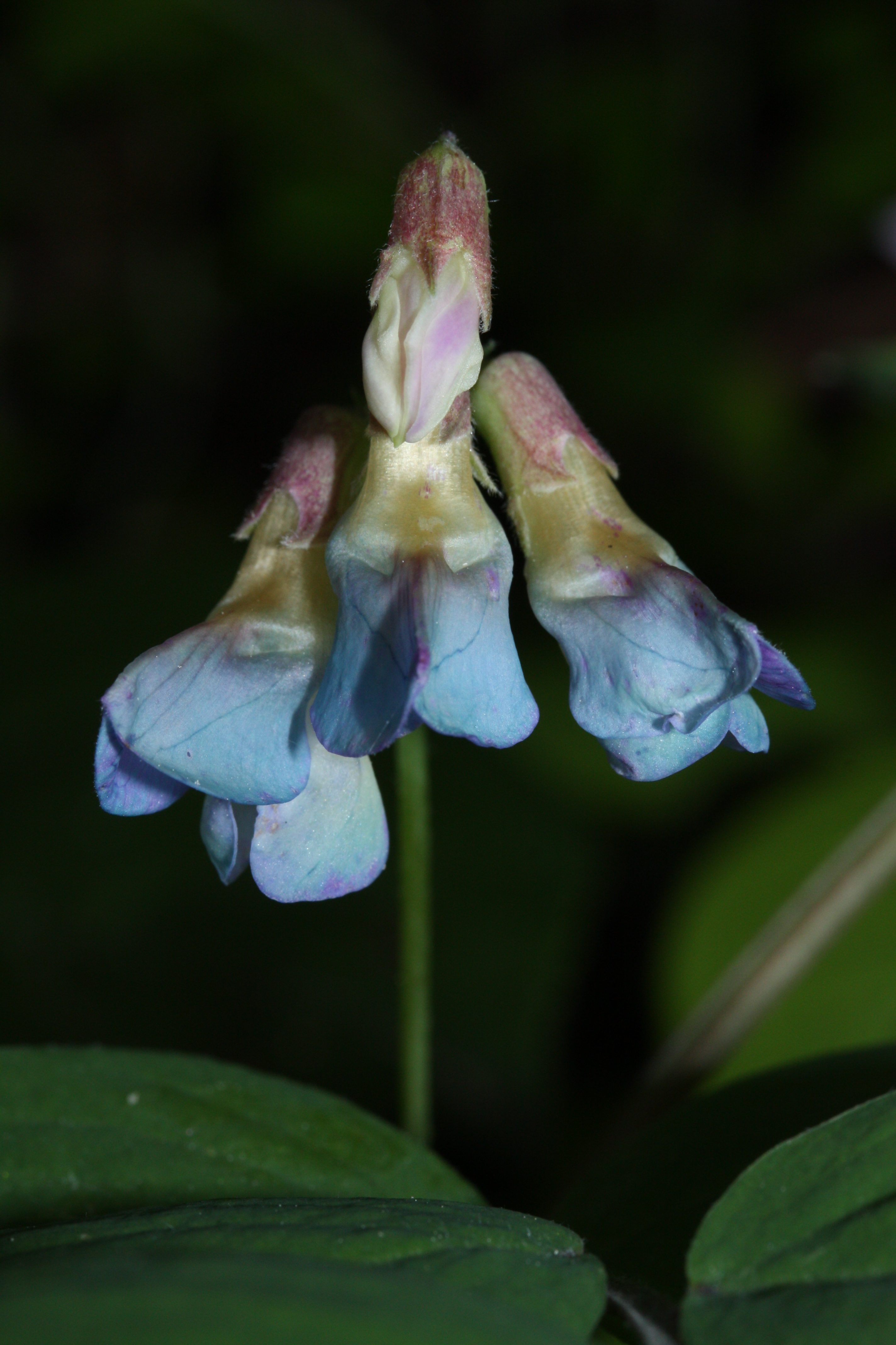 Sierra Pea, Cusick's Pea